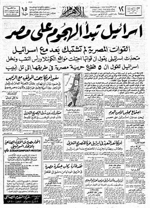 Al-Ahram Newspaper During Suez Crisis